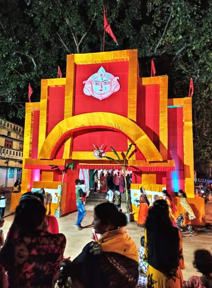 Durga Puja is being celebrated every in "Bargaon, Odisha" and this is a photograph from the year 2019.